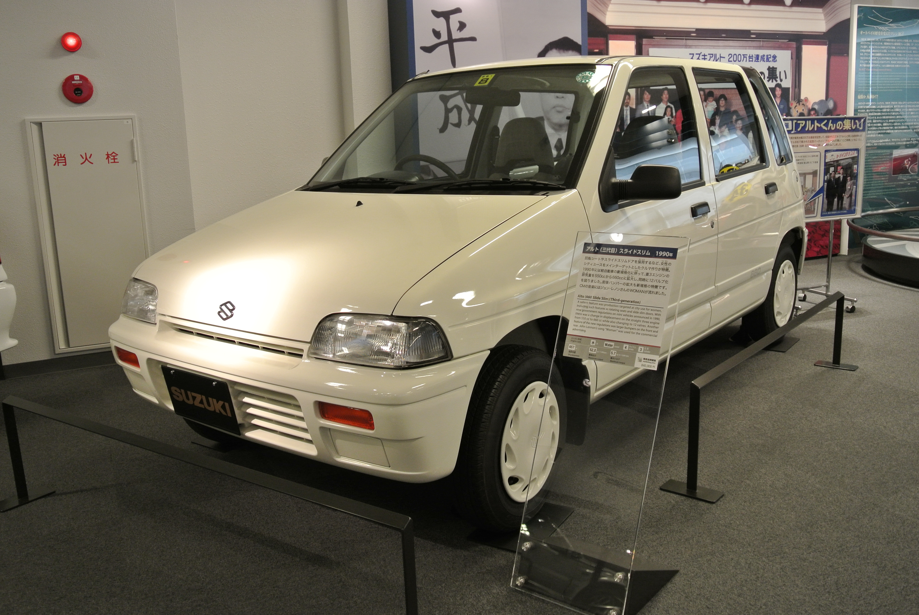 1990 Suzuki Alto in the Suzuki History Museum.